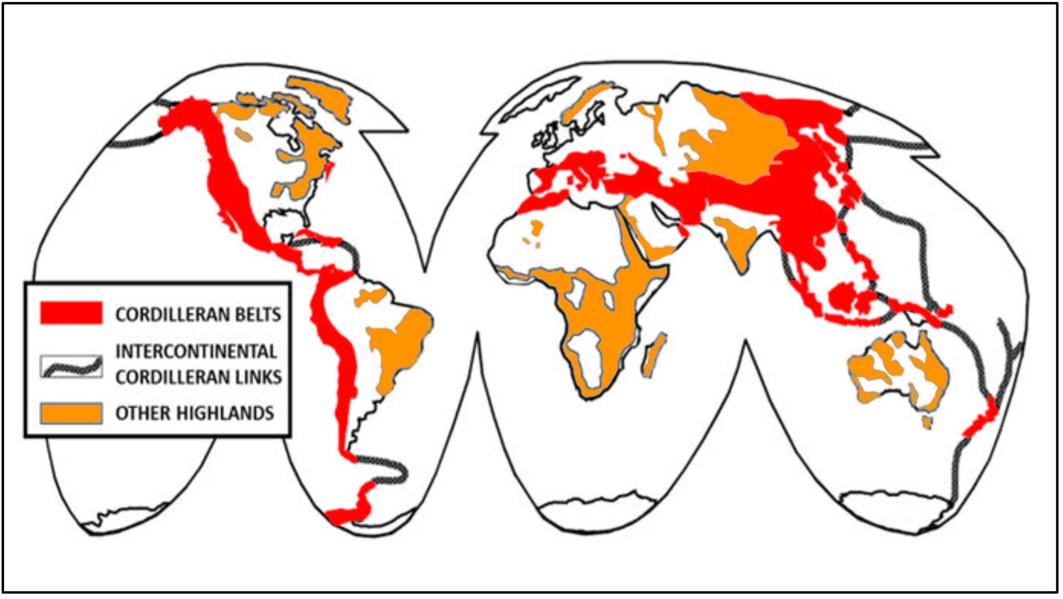 The principal mountain ranges of the world lie along the broad belts shown in Figure 1-1. Called cordillera (after the Spanish word for rope), these ranges encircle the Pacific basin and then lead westward across Eurasia into North Africa. Secondarily and though no less rugged, chains of mountains lie along the Atlantic margins of the Americas and Europe.